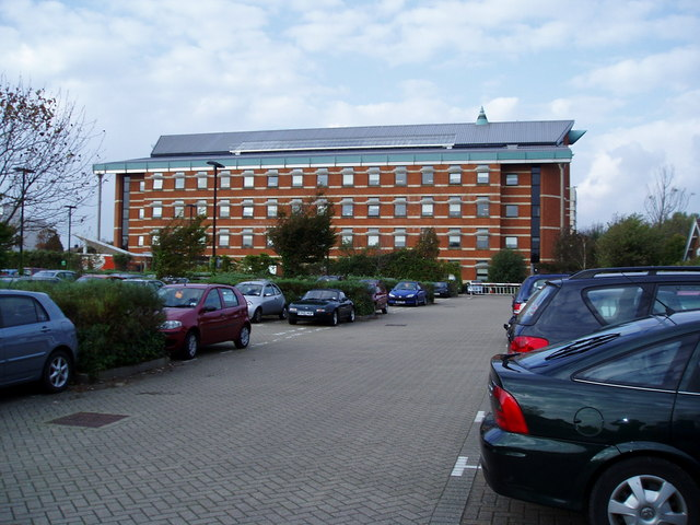 Tax Office Durrington Bridge House, Barrington Road,is home to HMRC Enforcement & Insolvency Office.